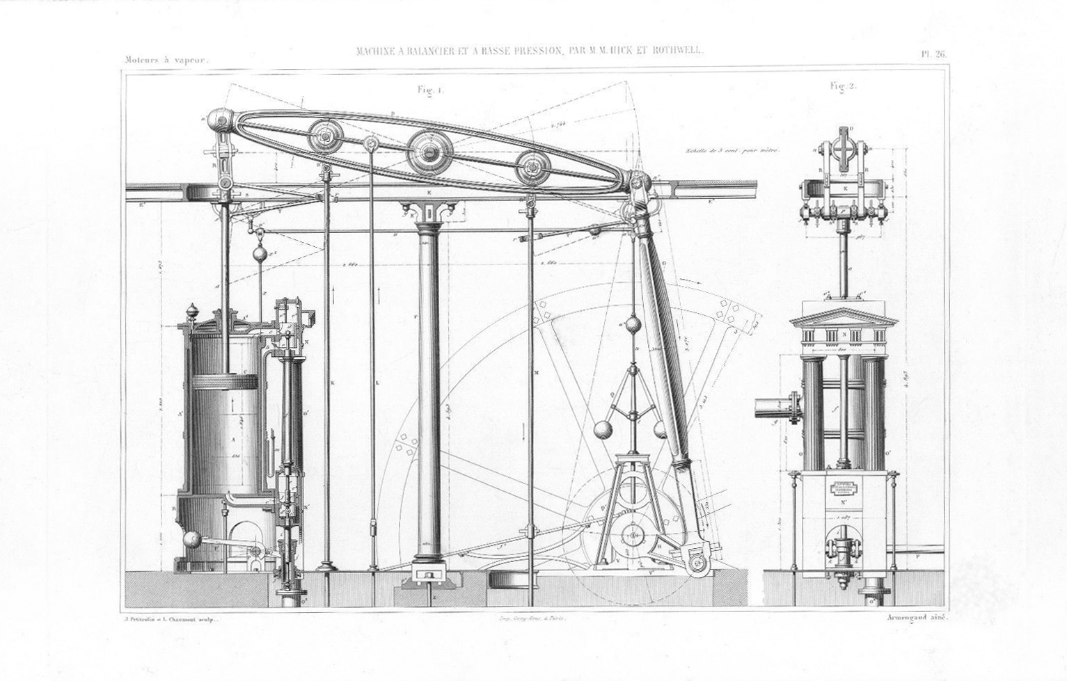 Scanned drawing of a Rothwell, Hick and Rothwell, low pressure steam engine by Jacques-Eugène Armengaud